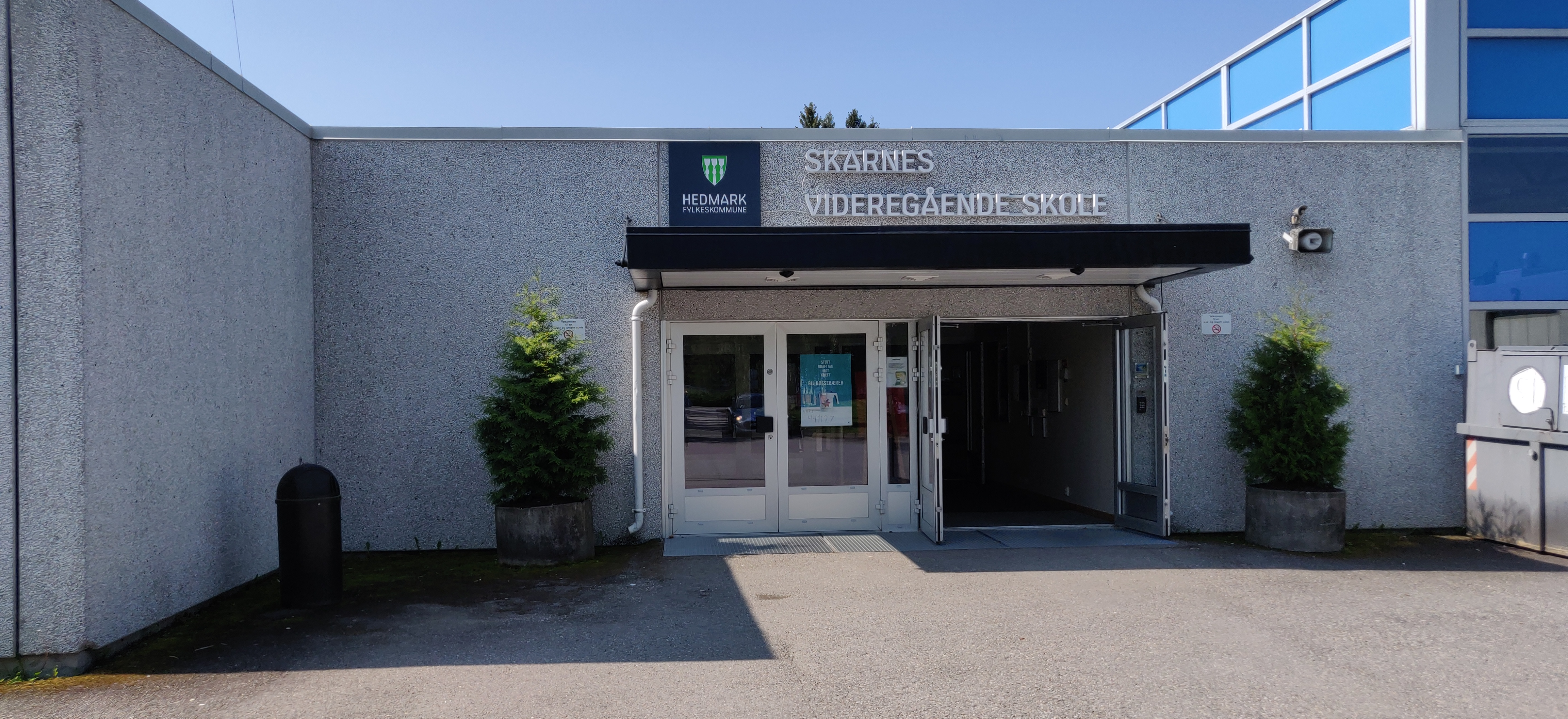 This is a picture taken of the entrance of the Skarnes High School. It was taken on the 06.06.2019 at 11:03 am